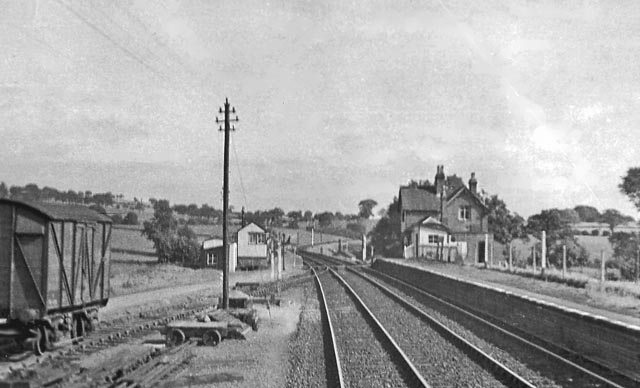 Breidden Station. View eastward, towards Shrewsbury, taken from the rear of an ex-GWR Diesel railcar (on a Rail Tour from Paddington to Towyn). This station, on the ex-GW&LNW Joint main line - still open in 2010 - Shrewsbury - Buttington (and Welshpool) was called 'Middletown' until 1/2/28 and was closed on 12/9/60; the platforms were staggered. See also